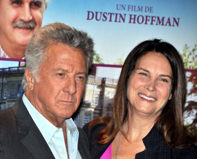 Dustin and Lisa Hoffman in Paris at the French premiere of "Quartet"